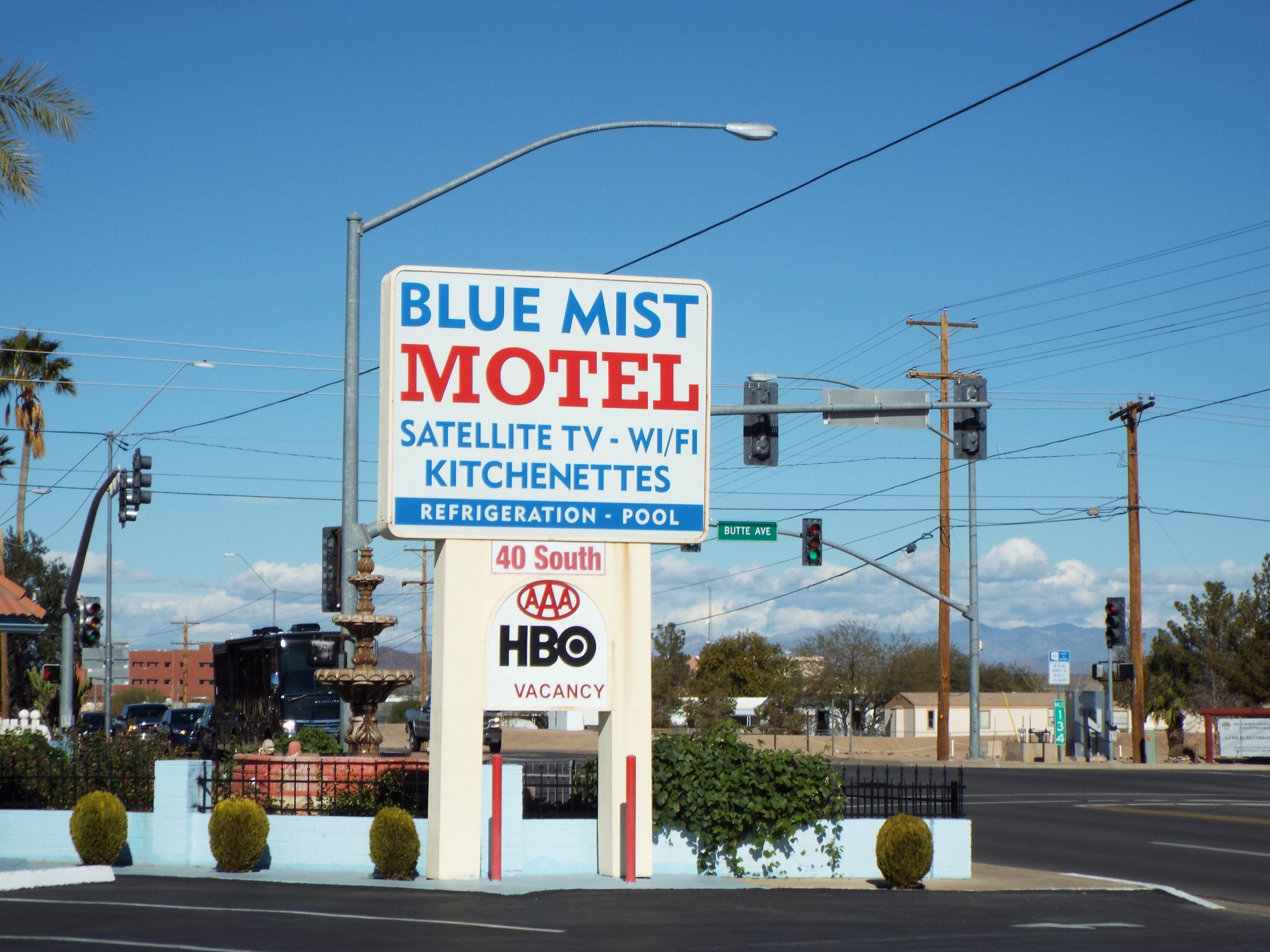 The Blue Mist Motel built in 1846 in Florence, Az. This is the location where Robert Moormann in January 1984 murdered and dismembered his mother.